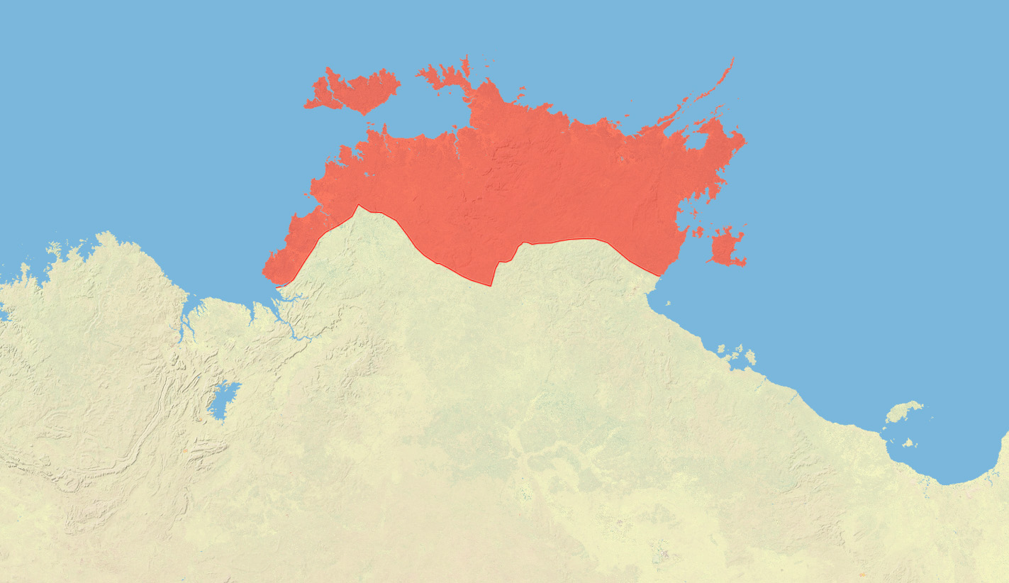 The Arnhem Land tropical savanna, defined by WWF WWF code AA0701